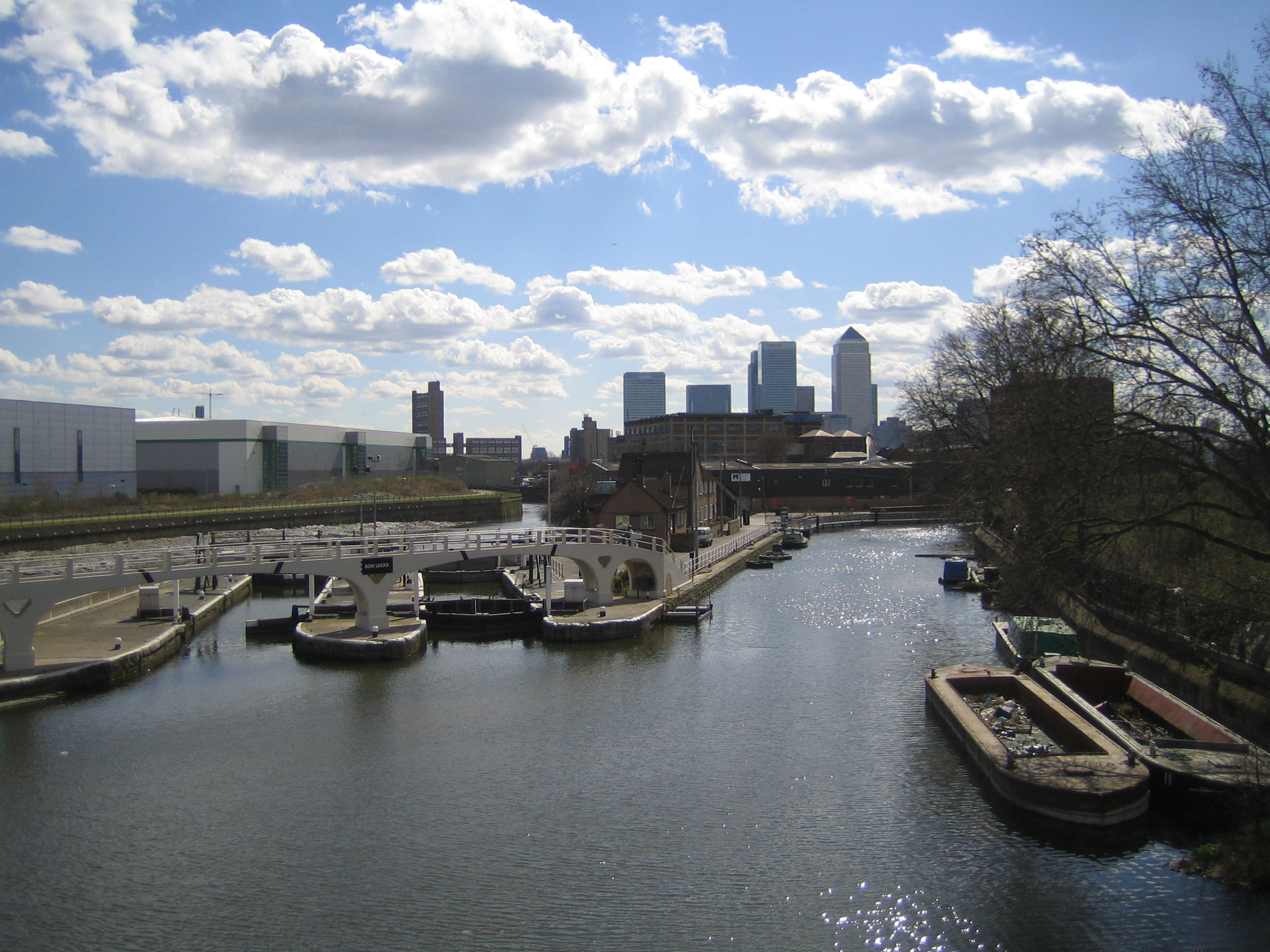 Bow Locks, East London